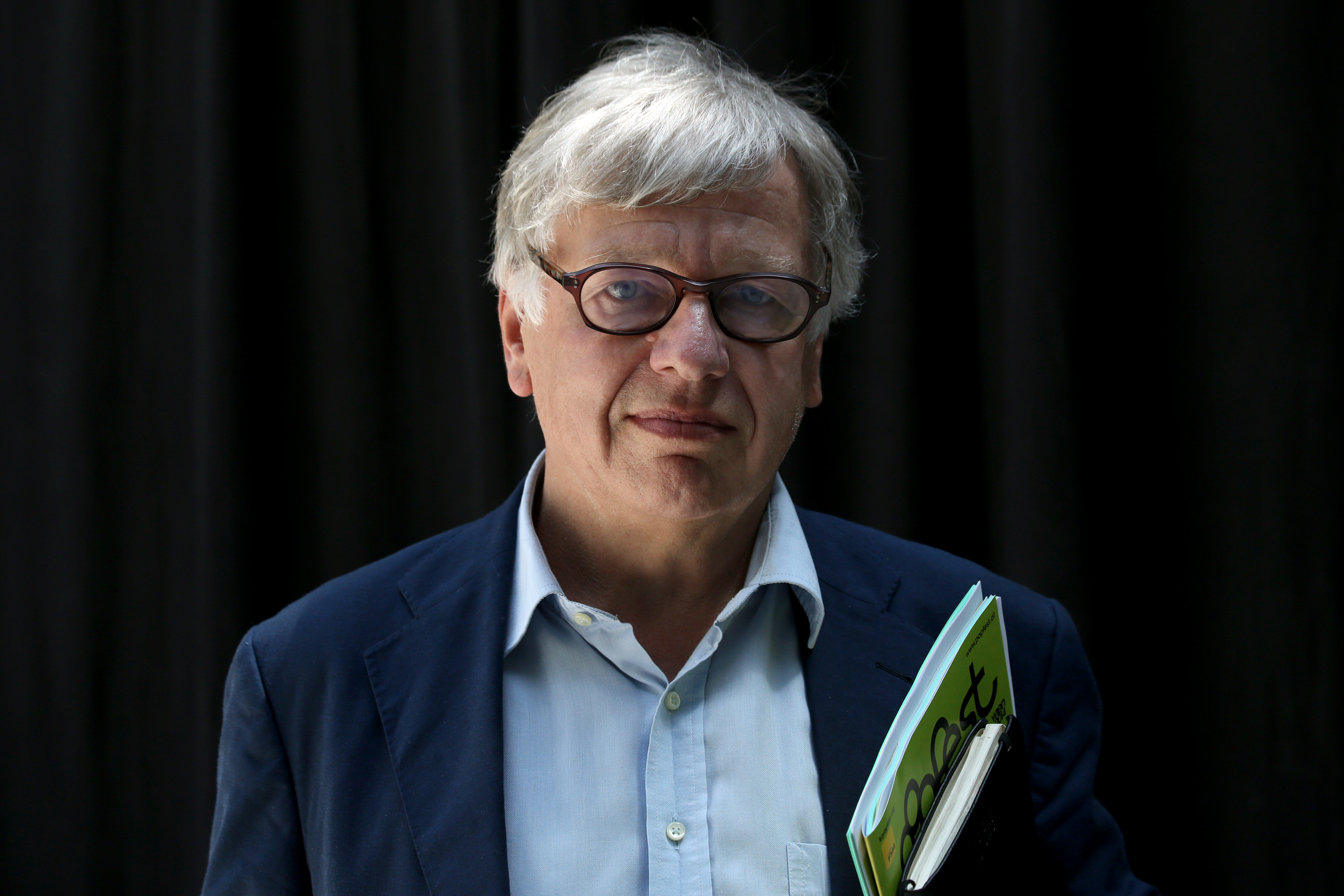 Wolfgang Kos at the presentation of the program of Popfest 2014 in (Vienna Museum, Vienna, Austria).